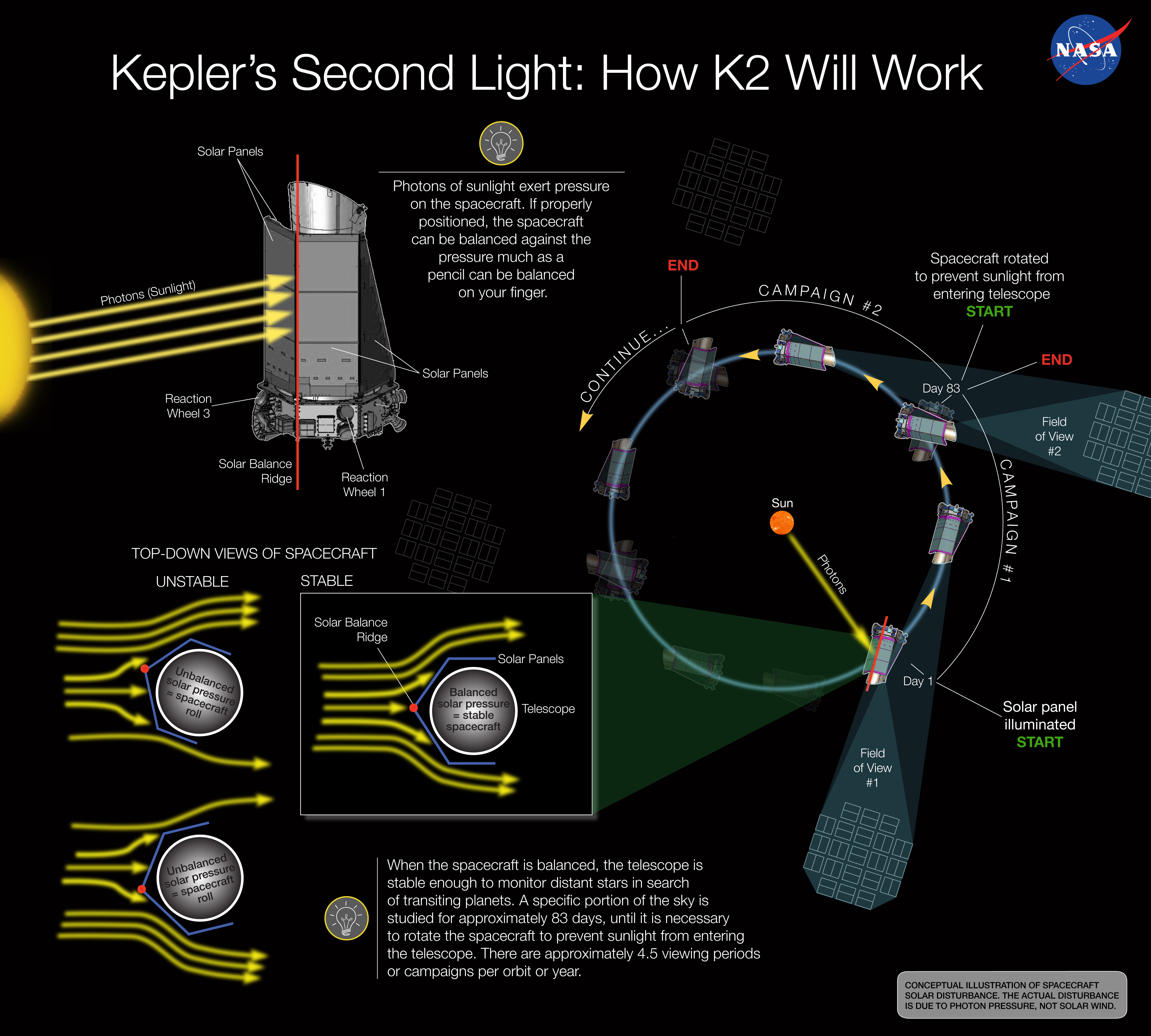 Kepler's Second Light: How K2 Will Work The conception illustration depicts how solar pressure can be used to balance NASA's Kepler spacecraft, keeping the telescope stable enough to continue monitoring distant stars in search of transiting planets. In May, Kepler lost the second of four gyroscope-like reaction wheels, ending new data collection for the original mission. A new mission concept, dubbed K2, would continue Kepler's search for other worlds, and introduce new opportunities to observe star clusters, young and old stars, active galaxies and supernovae. Using the sun and the two remaining reaction wheels, engineers have devised an innovative technique to stabilize and control the spacecraft in all three directions of motion. This technique of using the sun as the 'third wheel' to control pointing is currently being tested on the spacecraft. To achieve the necessary stability, the orientation of the spacecraft must be nearly parallel to its orbital path around the sun, which is slightly offset from the ecliptic, the orbital plane of Earth. The ecliptic plane defines the band of sky in which lie the constellations of the zodiac. K2 would study a specific portion of the sky for up to 83 days, until it is necessary to rotate the spacecraft to prevent sunlight from entering the telescope. Each orbit or year would consist of approximately 4.5 unique viewing periods or campaigns. The K2 mission concept has been presented to NASA Headquarters. A decision to proceed to the 2014 Senior Review – a biannual assessment of operating missions – and propose for budget to fly K2 is expected by the end of 2013. Page Last Updated: December 11th, 2013 Page Editor: Michele Johnson NASA Official: Brian Dunbar